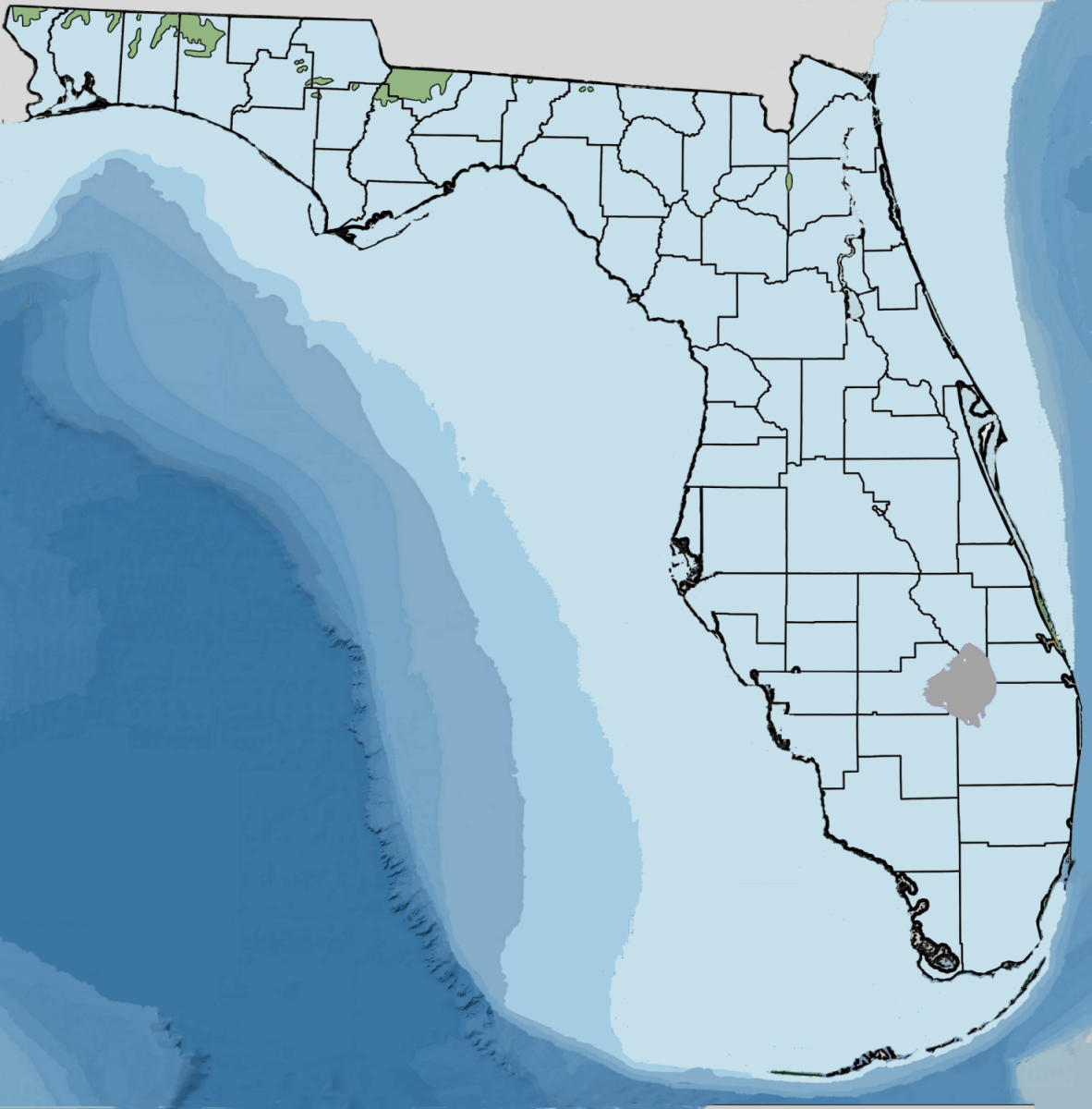 This map of prehistoric Florida depicts Florida's Hazelhurst terrace and shoreline dating from the Miocene or Pliocene epochs. Green indicates landmass between 97 to 65.5 meters (320—215 feet) mean sea level. The basis for this map are several maps from the FGS and State of Florida using an overlay. This map is copyrighted.